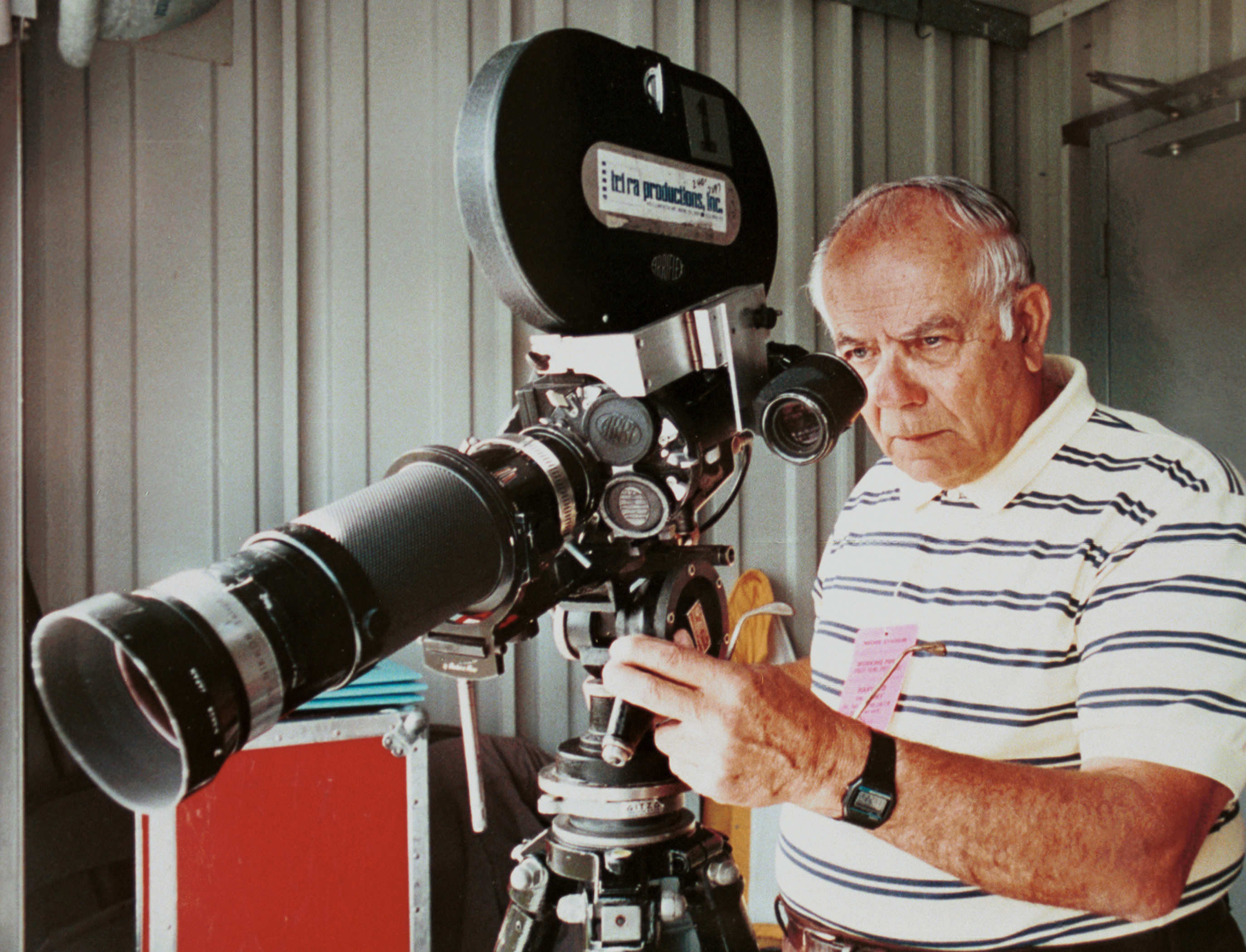 William G. Wilson filming Army football highlights at West Point using Arriflex 16M and Nikkor 75-300mm zoom lens.